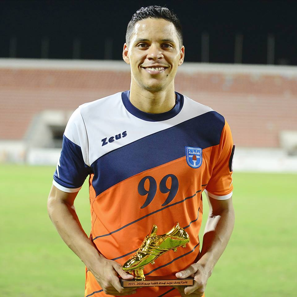 Patrick Fabiano with the Golden Boot for the 2014-15 Kuwaiti Premier League season. 9 May 2015 Al-Sadaqua Walsalam Stadium Photographer email id